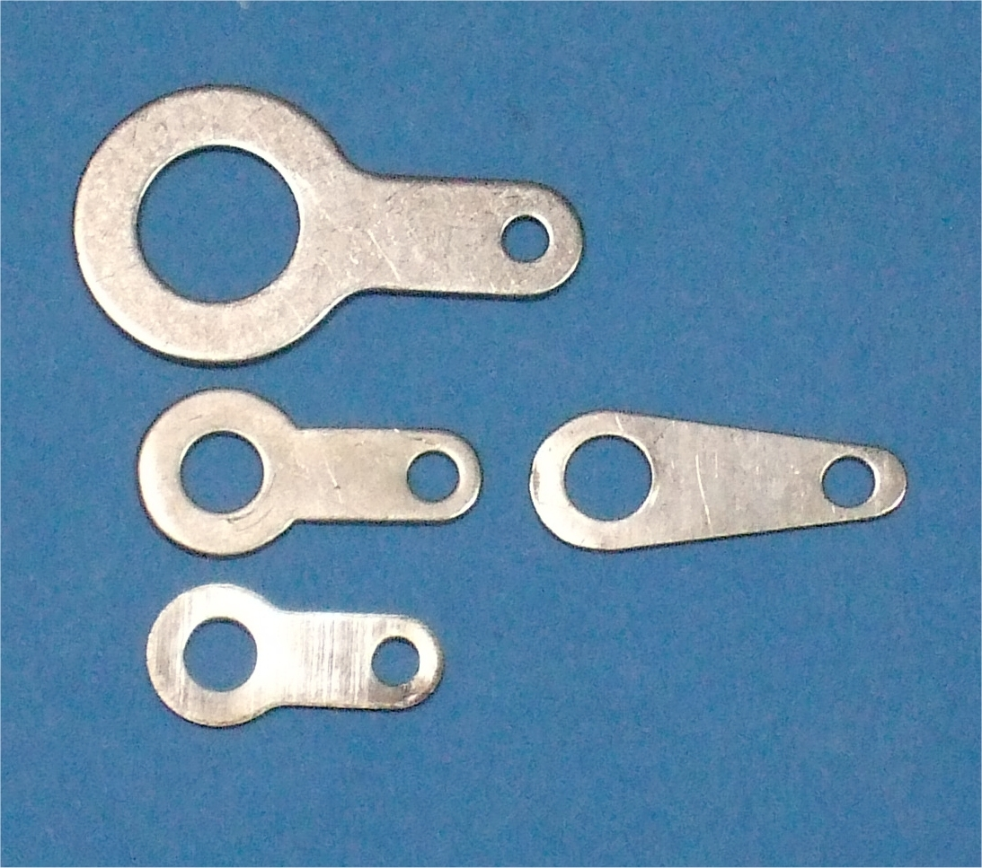 Several sizes and styles of solder terminal lugs (flat type). Each larger hole is for putting a screw through and each smaller hole is for soldering an electrically conductive lead.